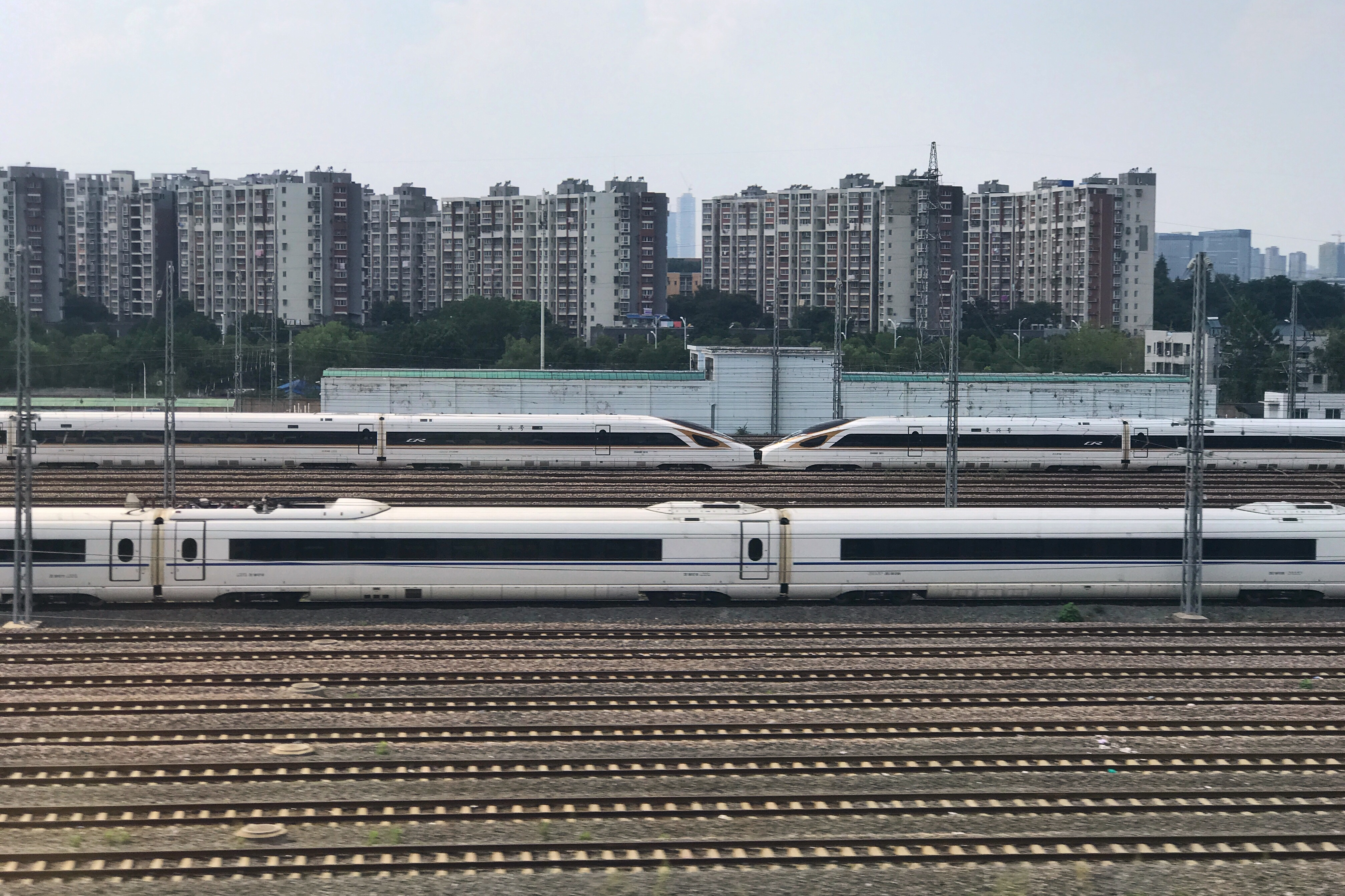 CMUs at depot in Nanjing